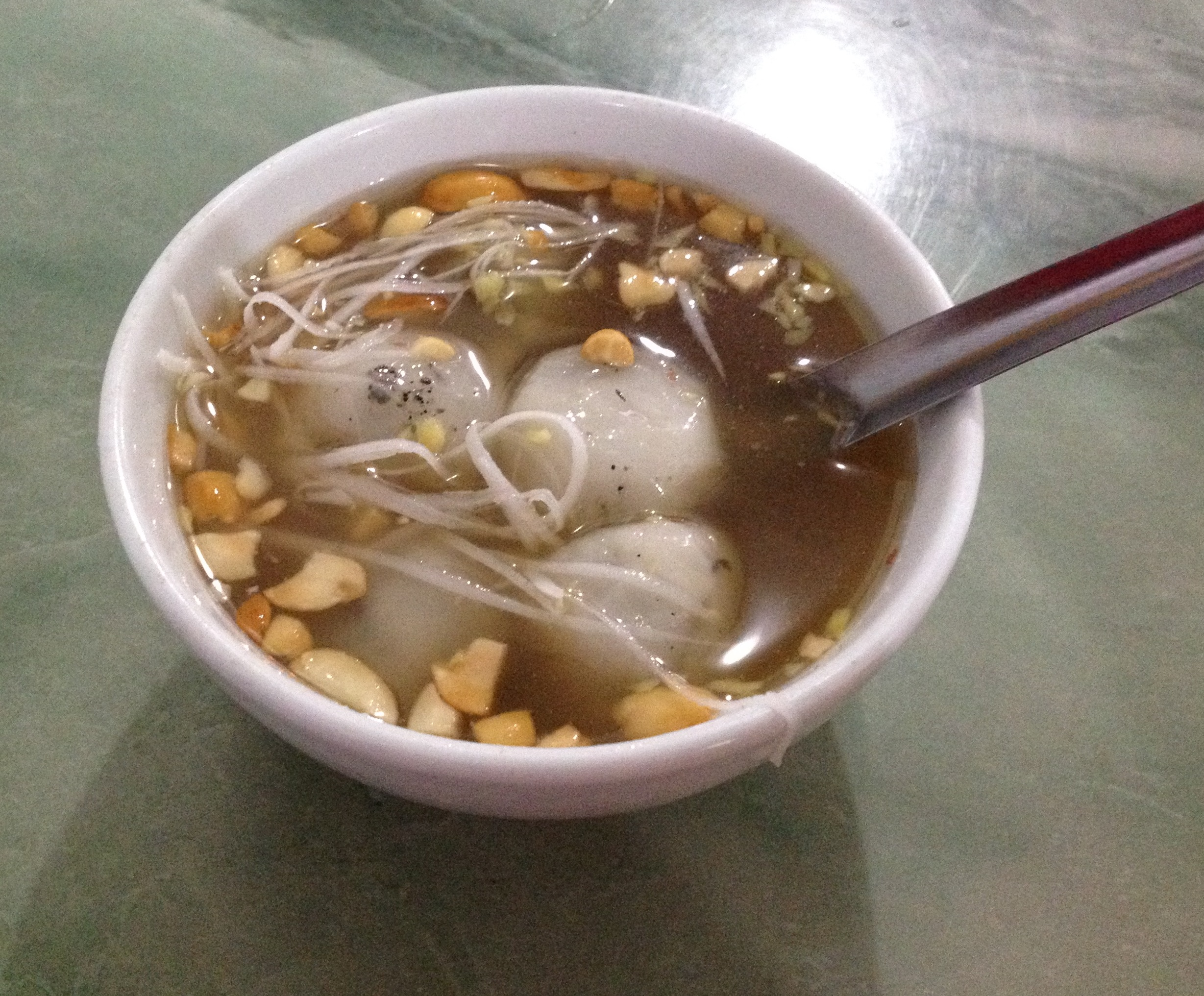 Glutinous rice balls with sweet broth dessert in Hai Phong